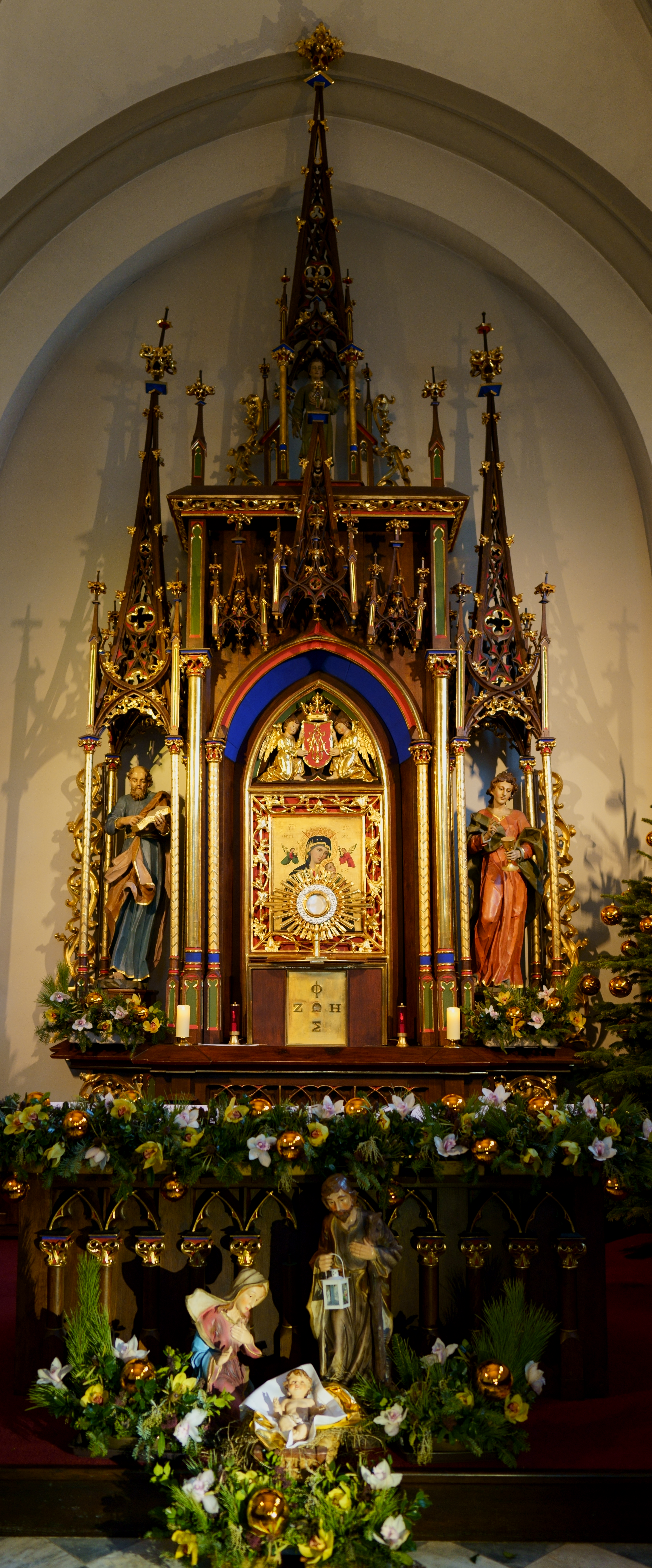 The church Józef. Altar of MB of Perpetual Help. Author Wit Wisz